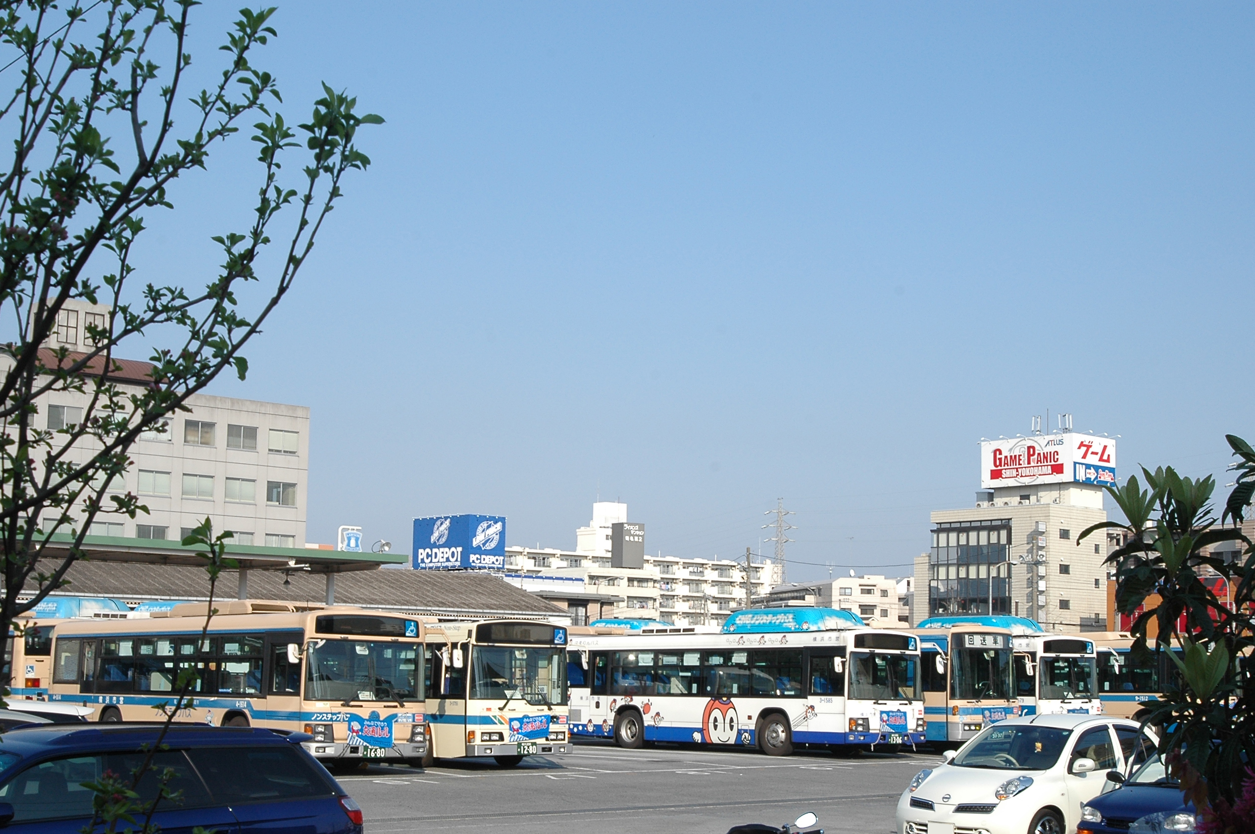 Kohoku Shed, Yokohama, Japan